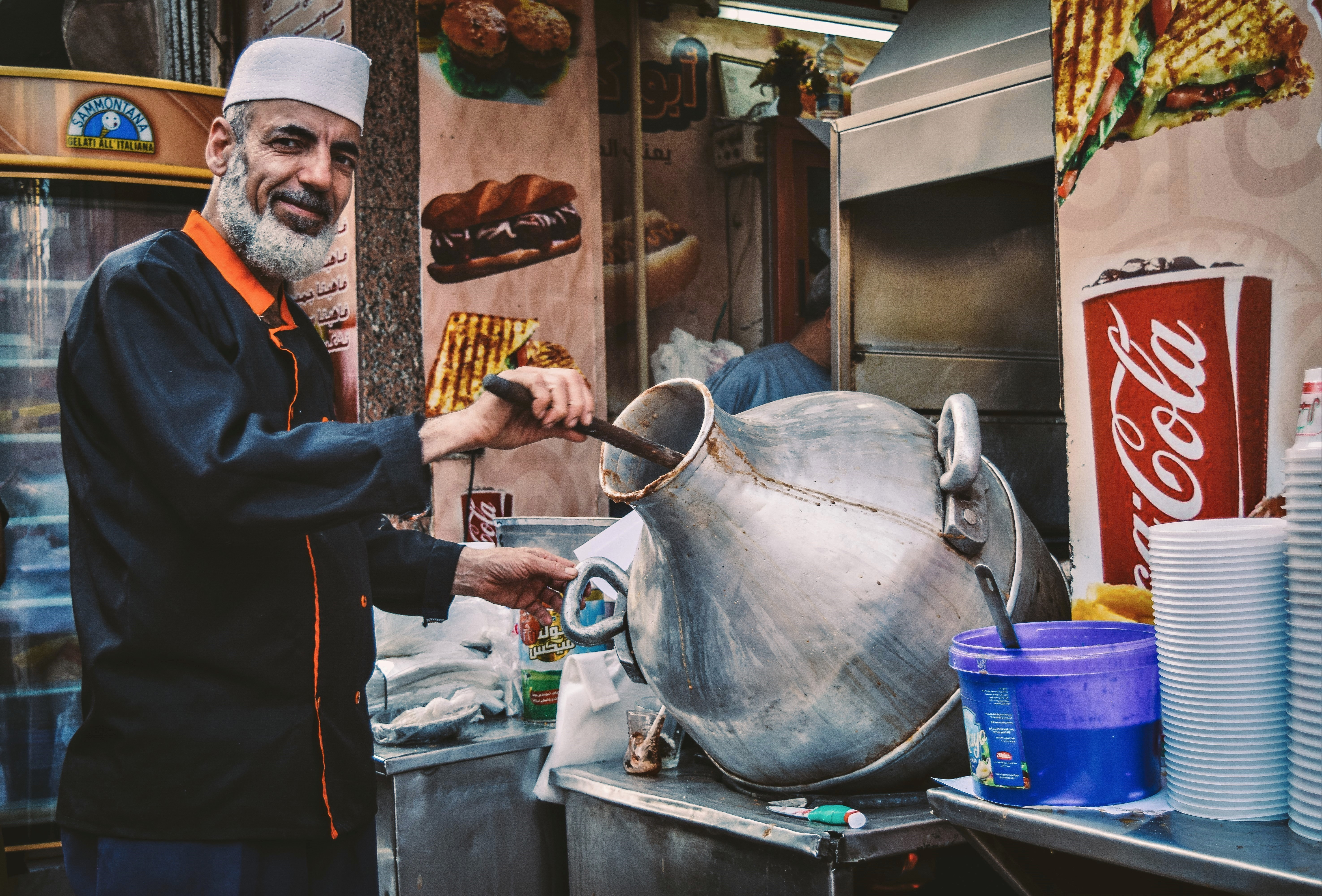 This man is selling a traditional food in Egypt called Foul mudames egyptian used to eat it specially in breakfast This is an image of "African people at work" from Egypt